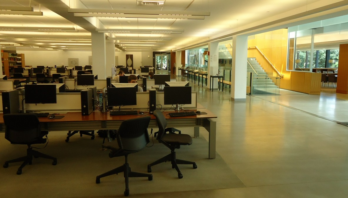 A photo from a campus tour of Lafayette College in Easton, Pennsylvania, on May 31, 2012 (correct date; 2011-06-01 is incorrect).